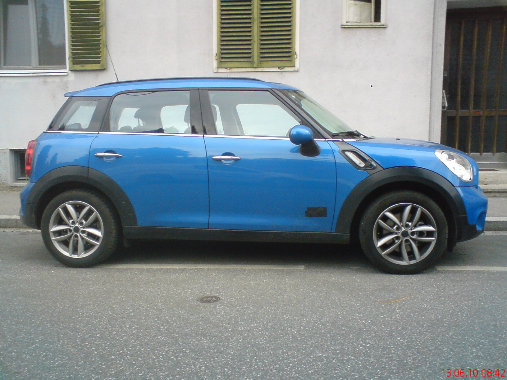 Mobile Phone Photo of a SUV version of BMW's Mini